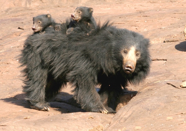 Indian Sloth Bear with cubs in Daroji Bear Sanctuary, Karnataka, India